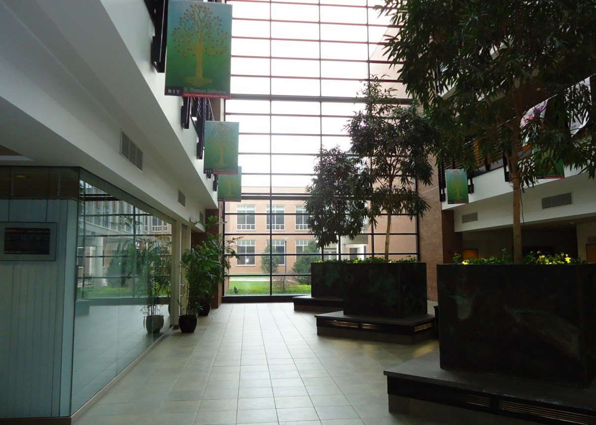 Atrium in the Golisano Building (70) at the Rochester Institute of Technology